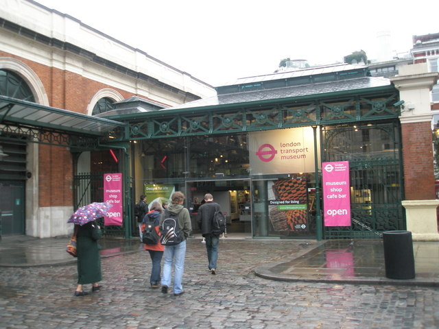 Entrance to the London Transport Museum